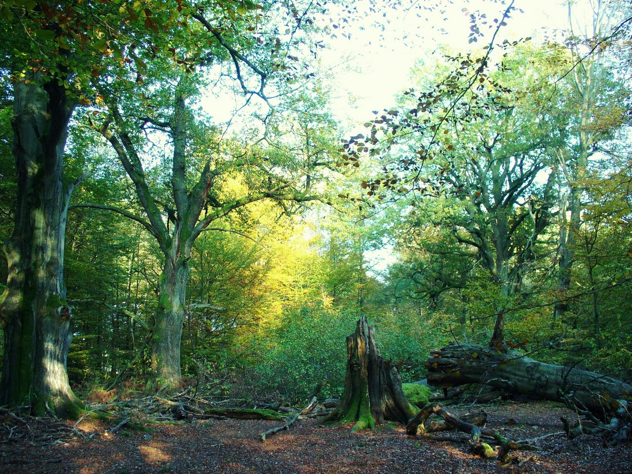 Primeval-like oak-beech-forest in the nature reserve "Urwald Sababurg", Reinhardswald north of Kassel, Hessen, Germany